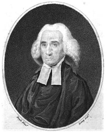 Samuel Stillman, Baptist preacher